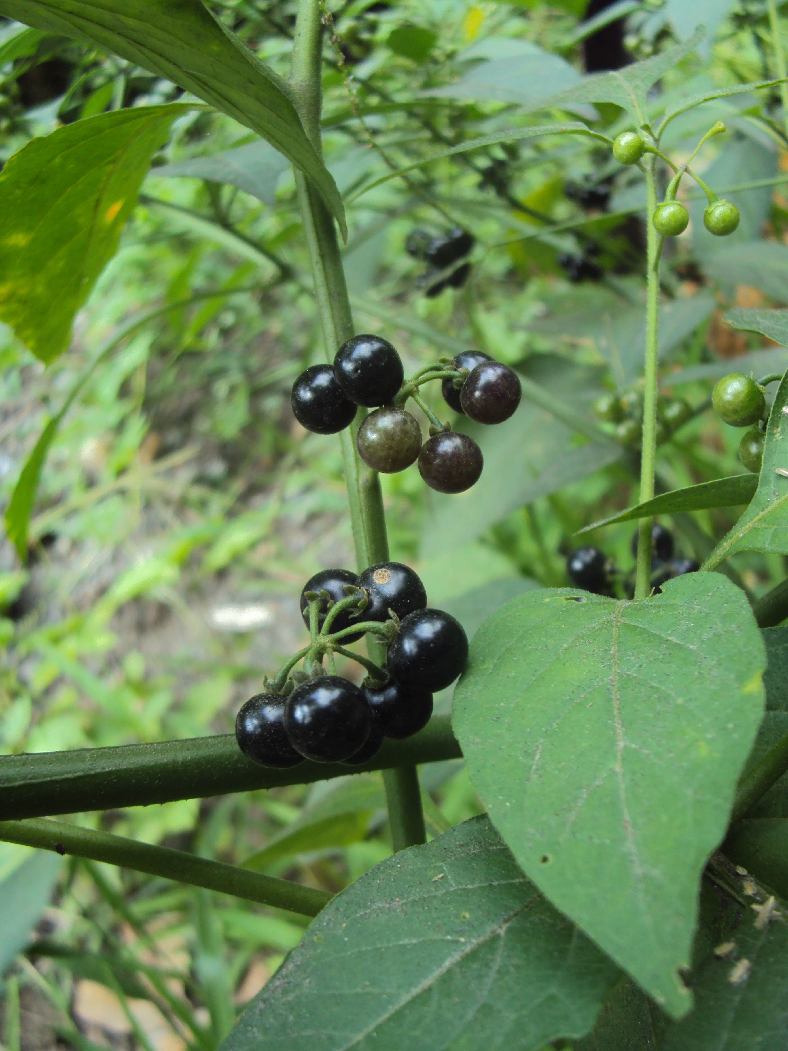 Solanum nigrum - മണിത്തക്കാളി